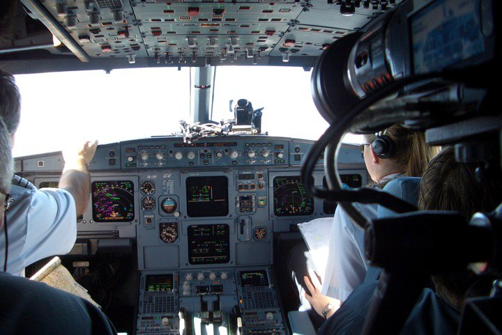 Austrian Airlines flight to Barcelona from the PilotsEYE.tv-Series BARCELONA